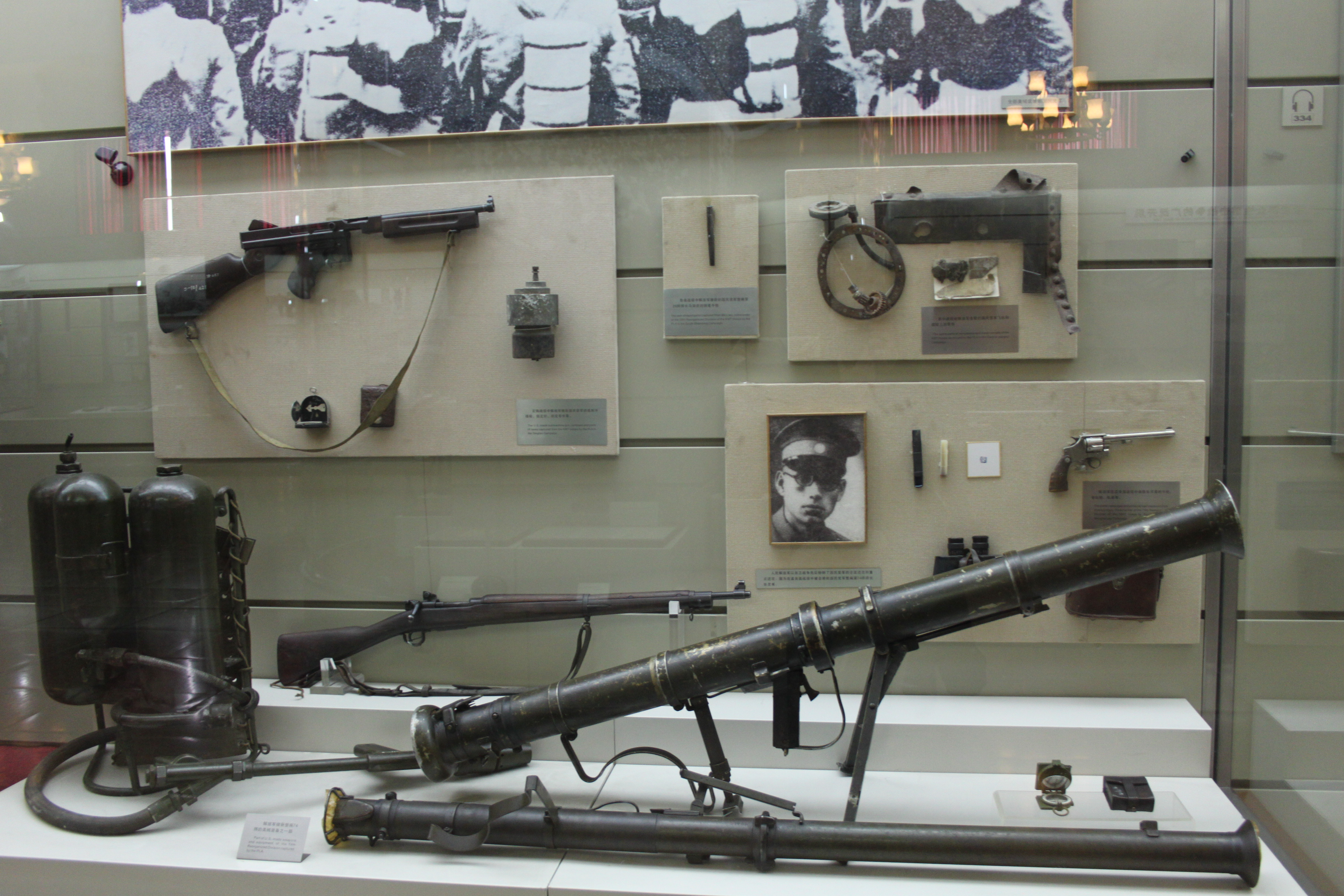 Military Museum: Modern Weapons. Complete indexed photo collection at .